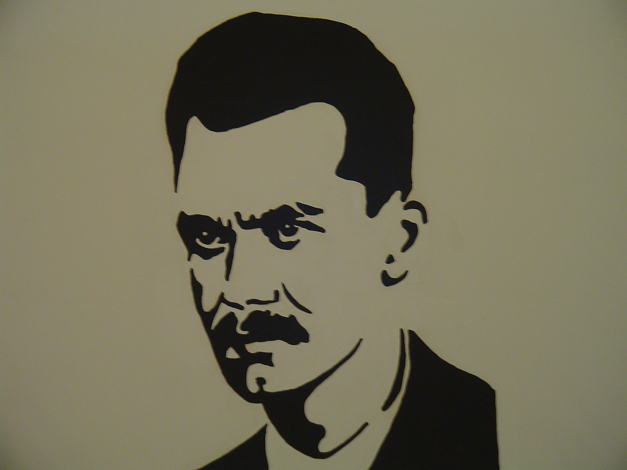 Attila József hungarian poet